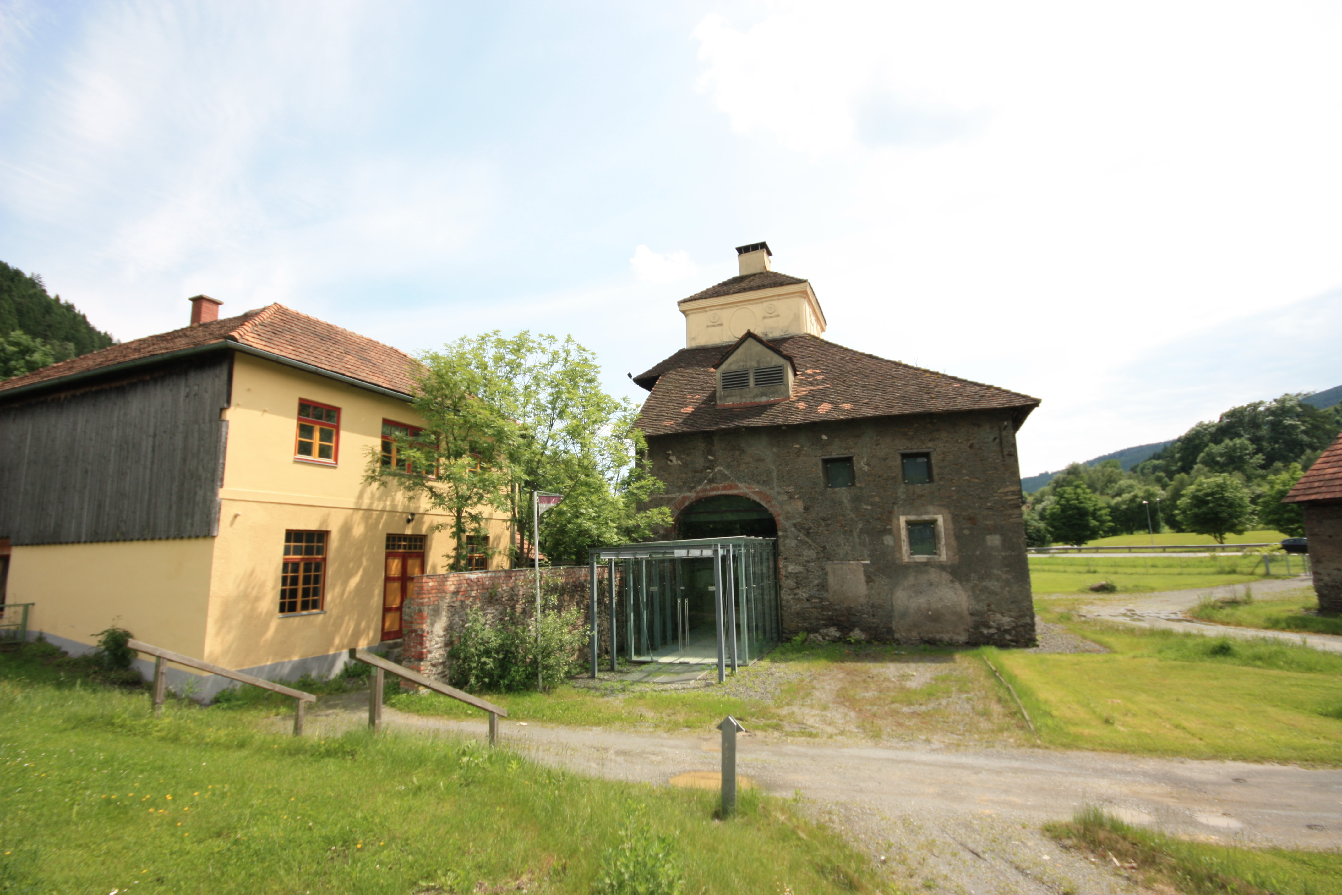 Historical blast furnace in Hirt at Micheldorf, Carinthia